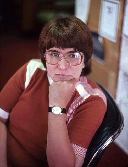 Ms. Prida in her office at Nuestro magazine. Credit: J. Gramatte